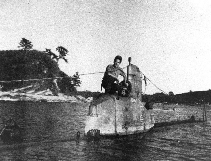 A Kairyu class submarine at the entrance of Moroiso inlet